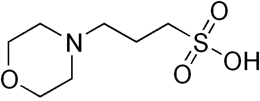 chemical structure of morpholinopropane sulfonic acid (MOPS)